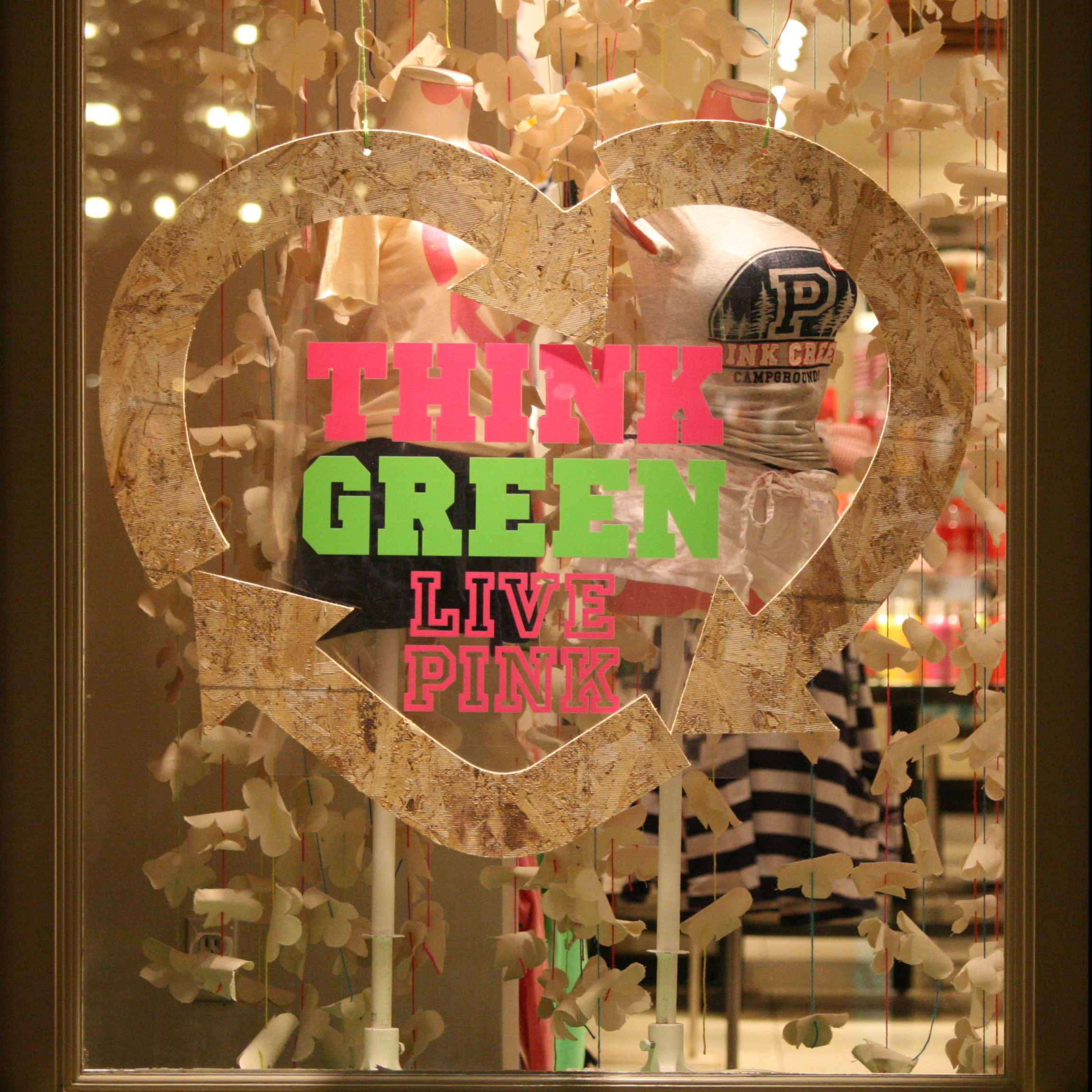 An interesting display in the window of the Victoria's Secret store in the Quincy Market shopping mall in Boston, MA.